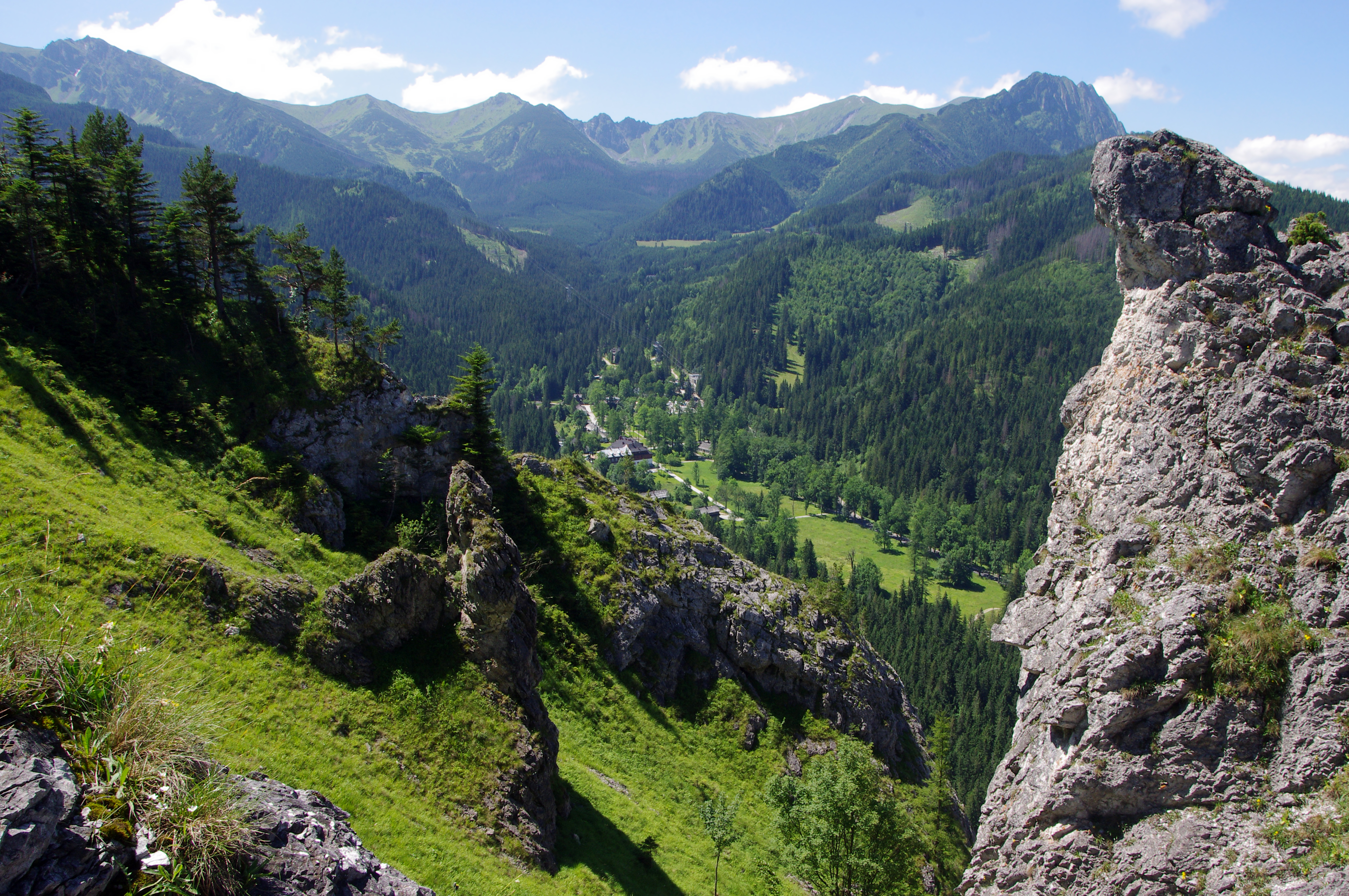 View from Nosal